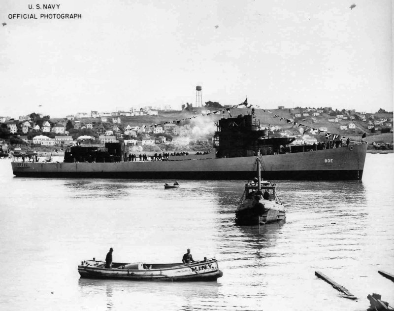 United States Navy Image of the USS Duffy (DE-27).